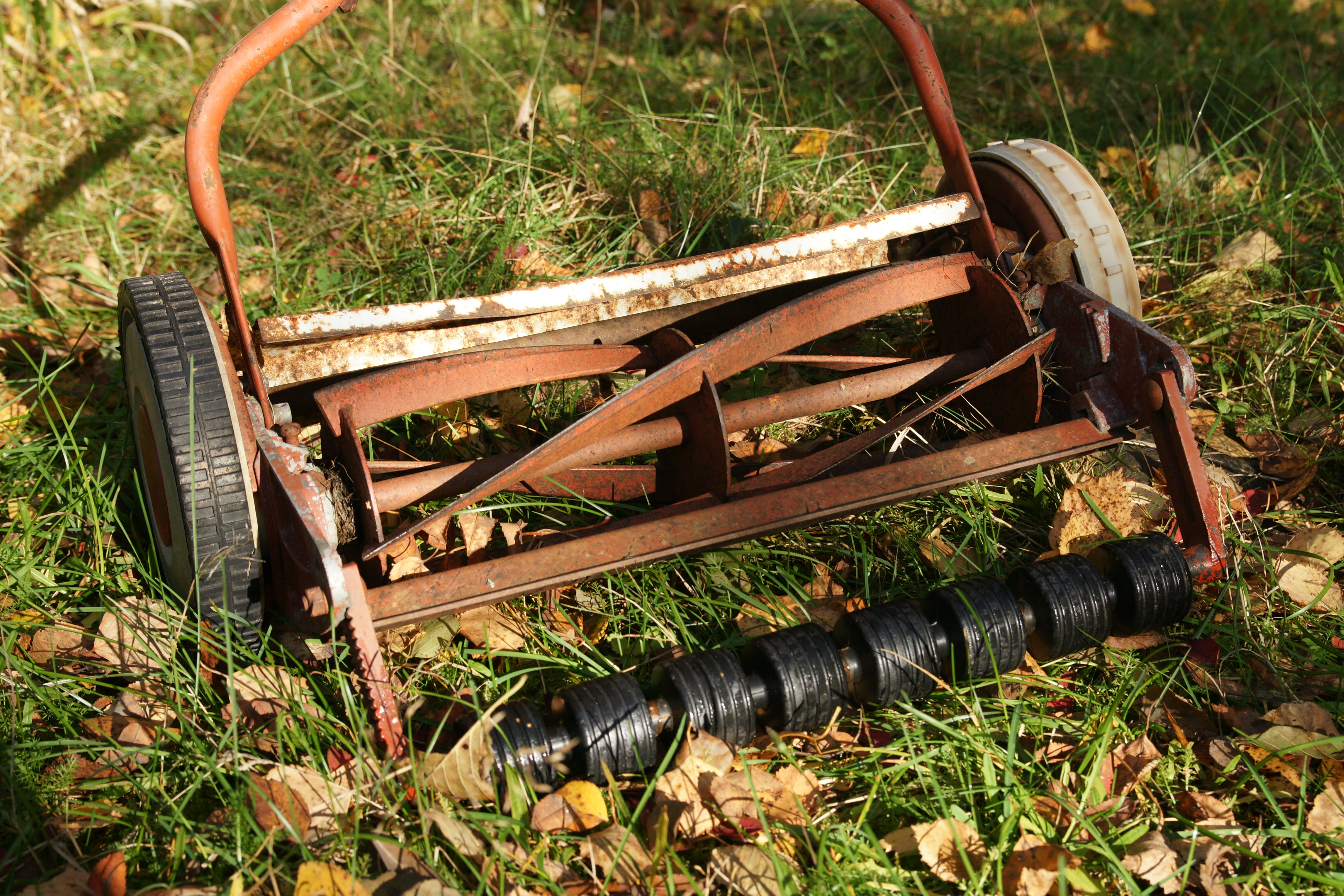 Rusted reel mower.